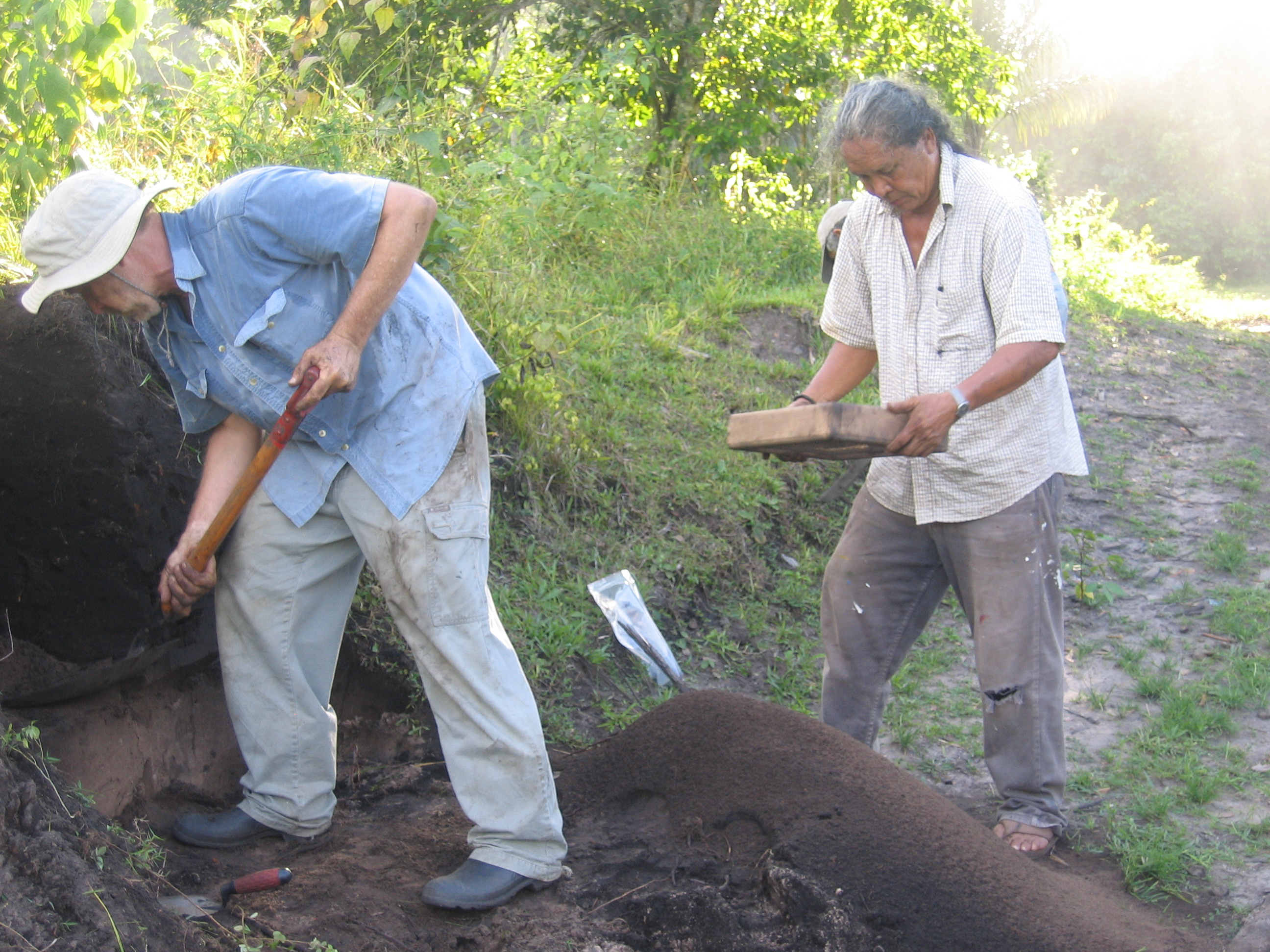 Photograph of George Simon at work on the Berbice Archaeology Project, Guyana, 2009.